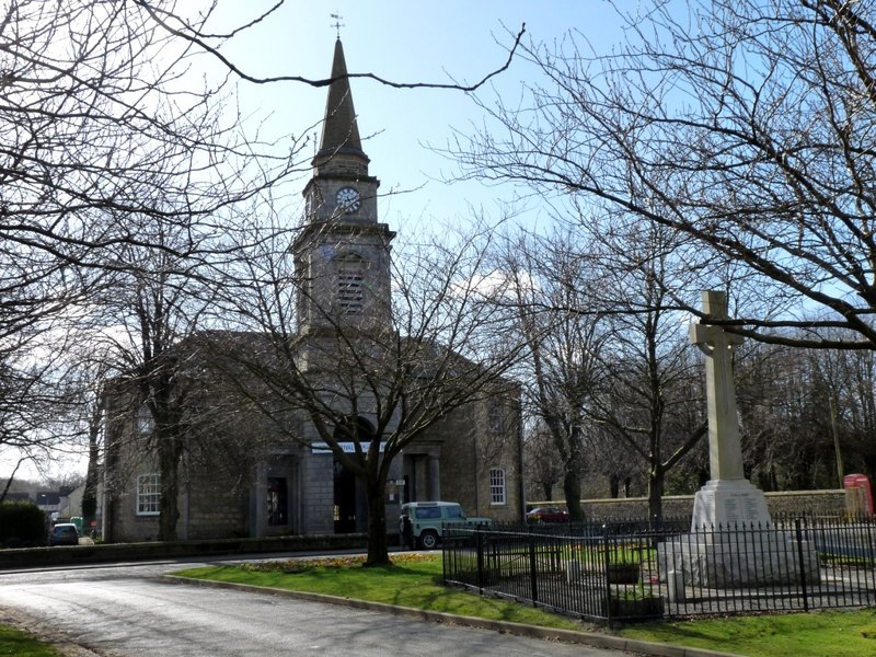 Lochwinnoch Parish Church